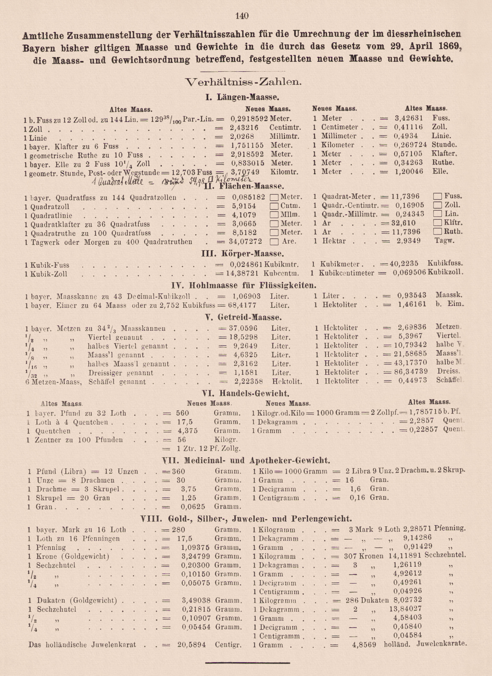 Nutzung früherer Maßangaben für Länge, Fläche, Volumen, Getreide und Gewicht in Bayern.